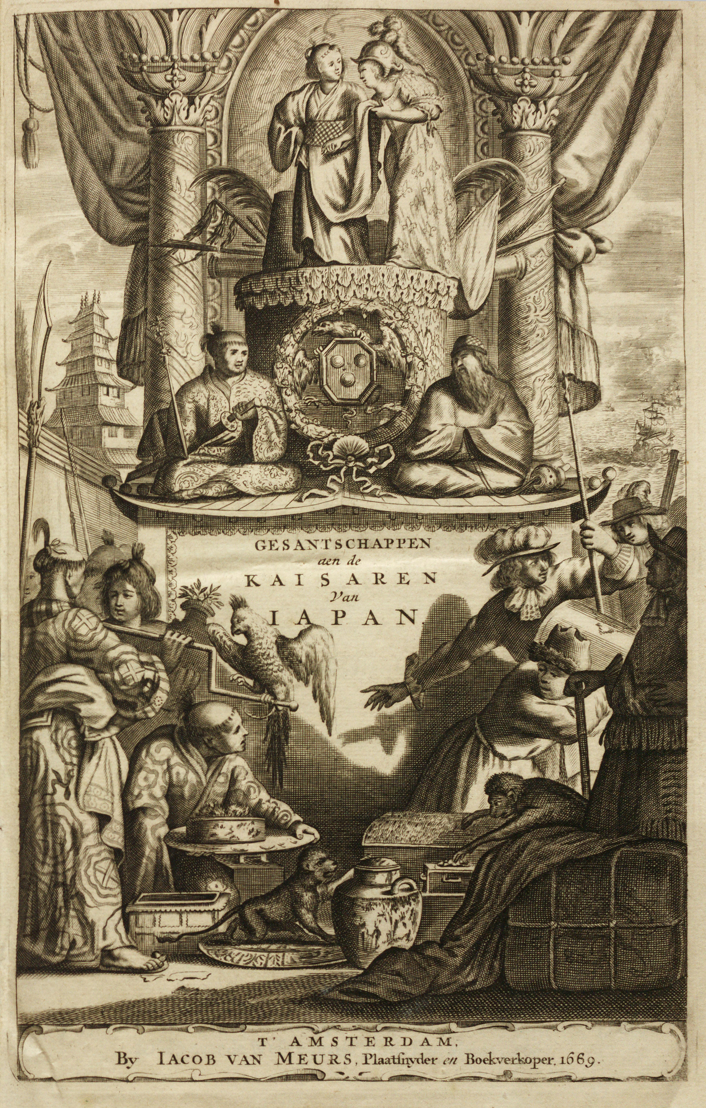 Title plate from Montanus - Gedenkwaerdige Gesantschappen